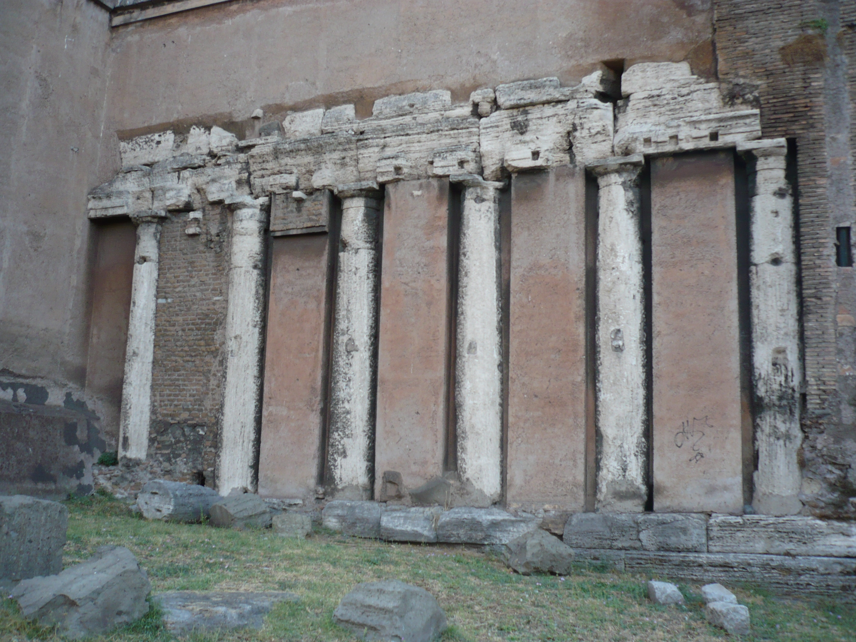 Temple of Spes, Forum Holitorium